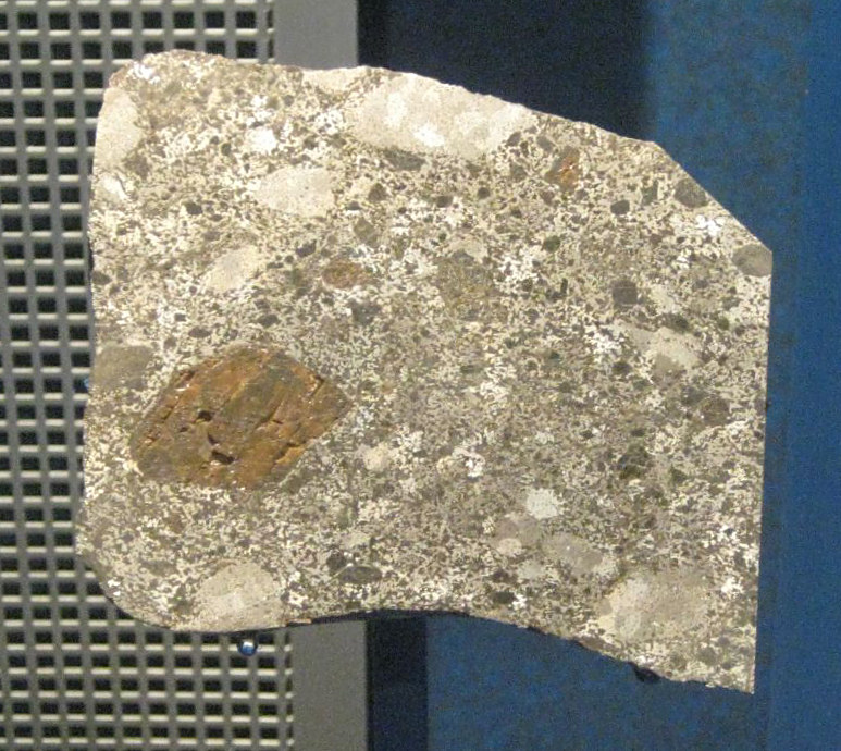 Chinguetti mesosiderite. Found in 1920 in Dhar Adrar, Mauritania.